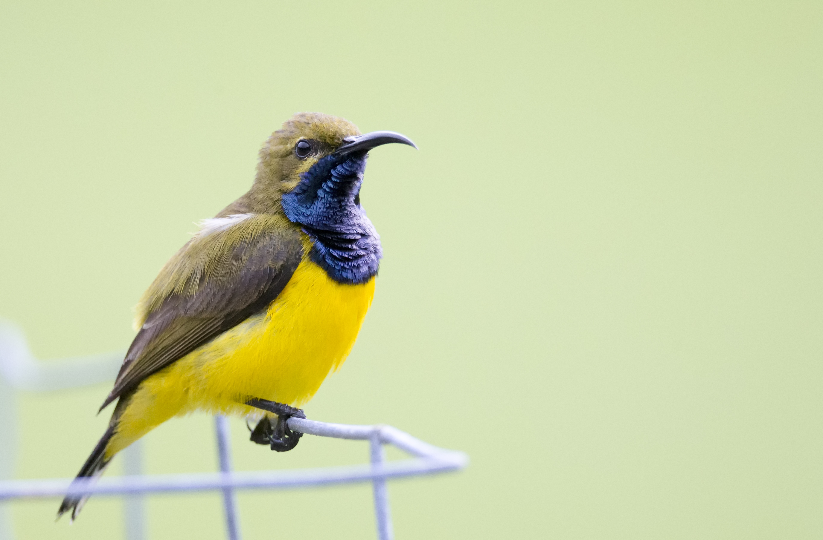 They love a bath, this one was wet with dew. We have 5 in a little community. This one, the male is the most curious of the lot